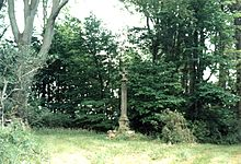 Memorial cross said to mark the spot where King Malcolm III of Scotland was killed while besieging Alnwick Castle in 1093.